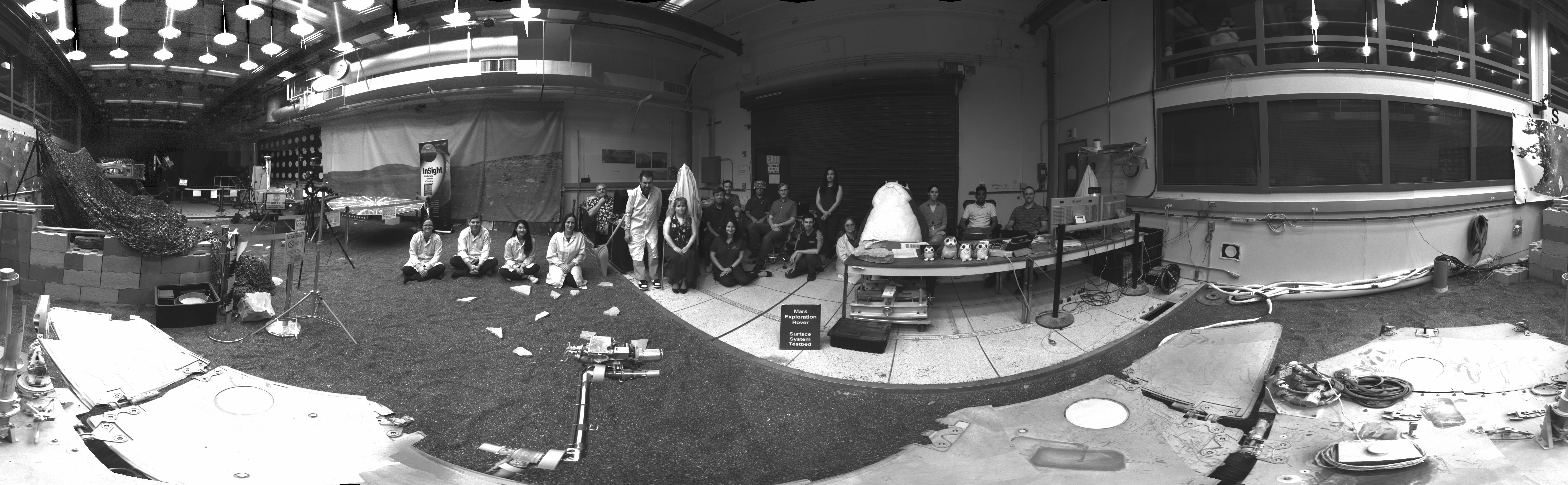 PIA23247: Dusty's Panorama This 360-degree panorama was taken by "Dusty," a fully-working replica of NASA's Opportunity rover at the agency's Jet Propulsion Laboratory. The panorama was taken as part of a software test. Members of the Opportunity team gathered to sit in during the panorama. The panorama was taken by Dusty's Panoramic Camera, or Pancam, on Sept. 6, 2018. NASA's Jet Propulsion Laboratory, a division of Caltech in Pasadena, California, manages the Mars Exploration Rover Project for NASA's Science Mission Directorate in Washington. For more information about Opportunity, visit and